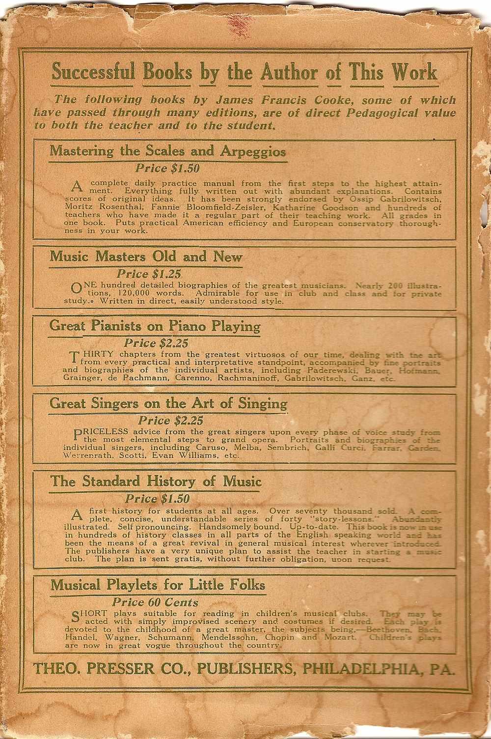 This is the rear of the dust cover to the book Great Singers on the Art of Singing by James Francis Cook. The image contains information about the books by Cooke that were being published in 1921.